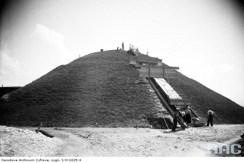 Krak Mound